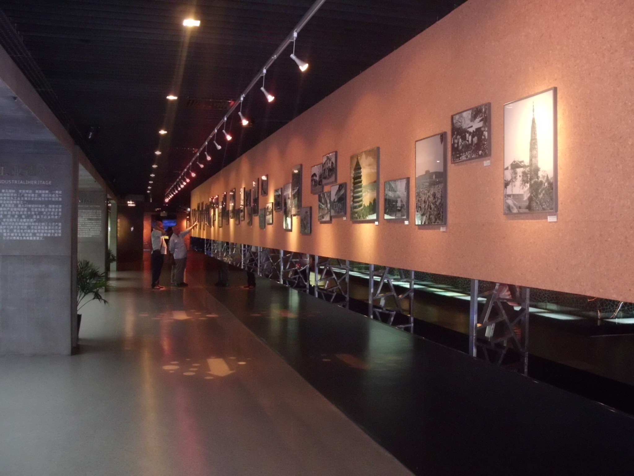 Hangzhou Urban Planning Exhibition Hall